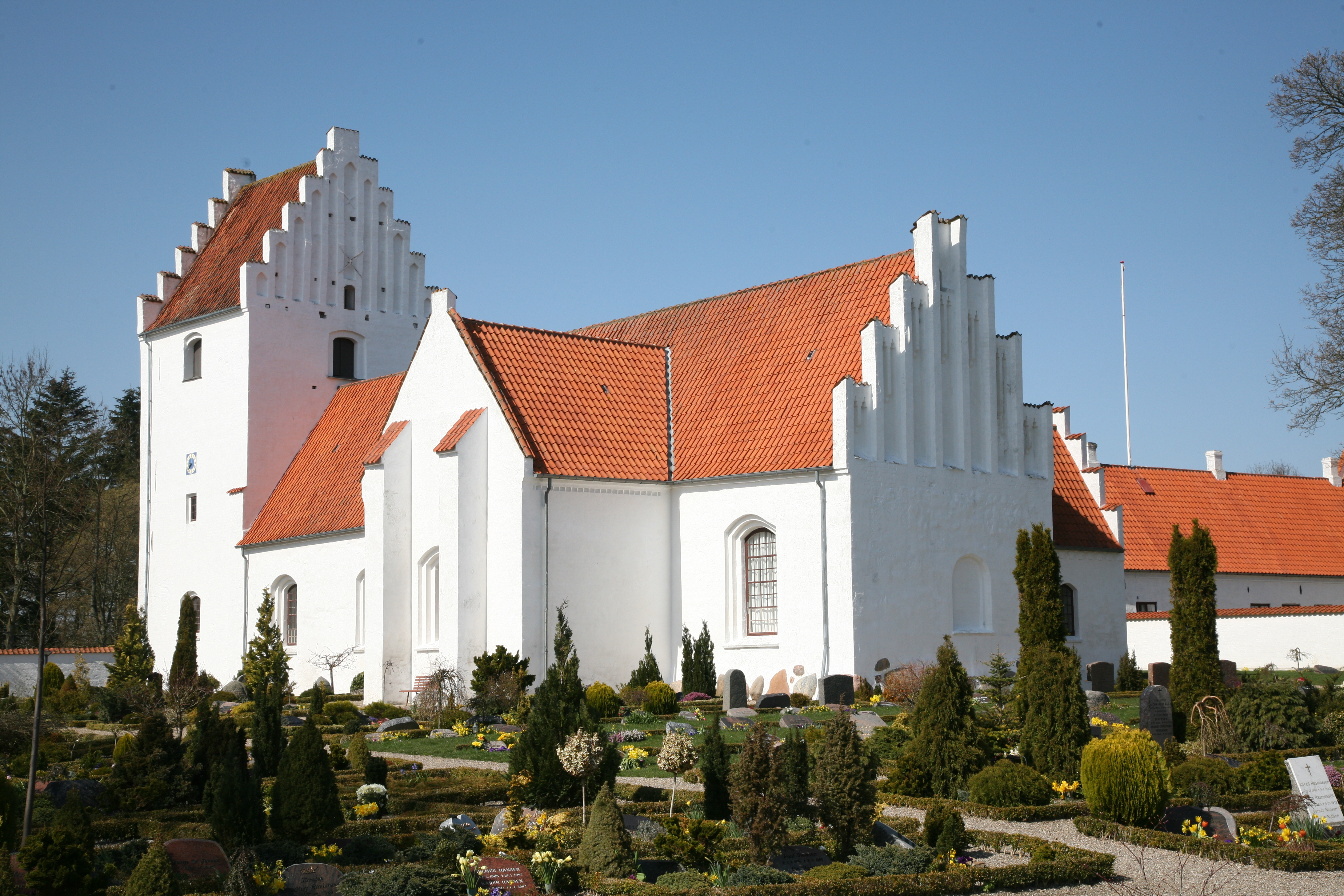 Fyrendal church in Denmark